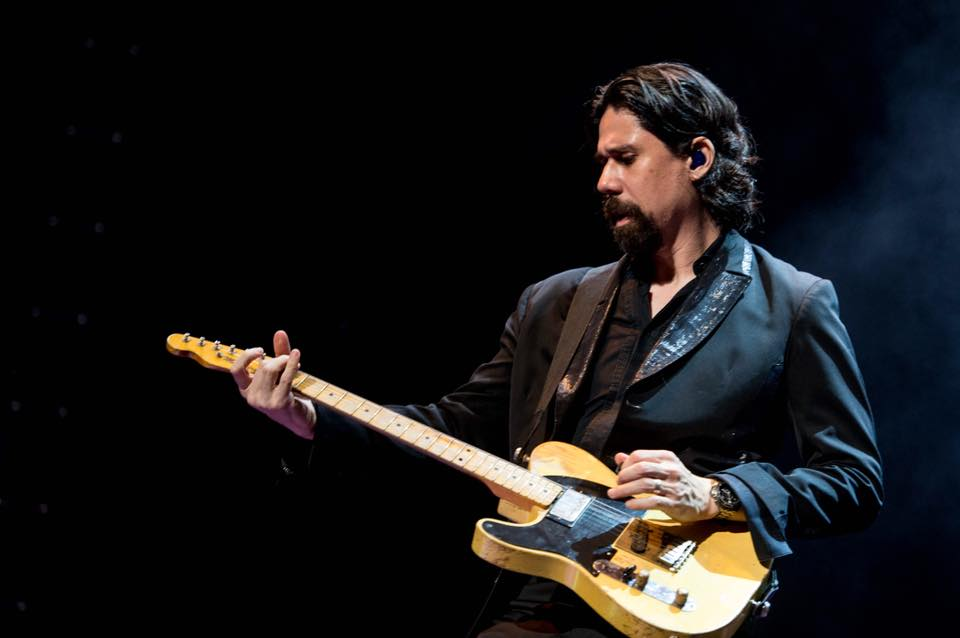 Ted Sablay performing in Tokyo, September 2018